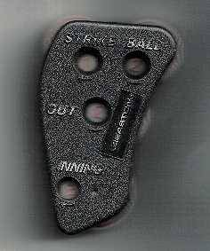 A stock-standard softball/baseball "counter", also called a "clicker". Counters come in several varieties, the most common difference is whether the counter records three values (strikes, balls, outs) or four (as in the image: strikes, balls, outs, innings). A variant of the four-value counter displays each inning number twice, with the colour of the number being used to distinguish between the top or bottom of an inning. Counters tend to be either plastic or stainless steel; the plastic variety comes in many colours. Template:ShadowsCommons